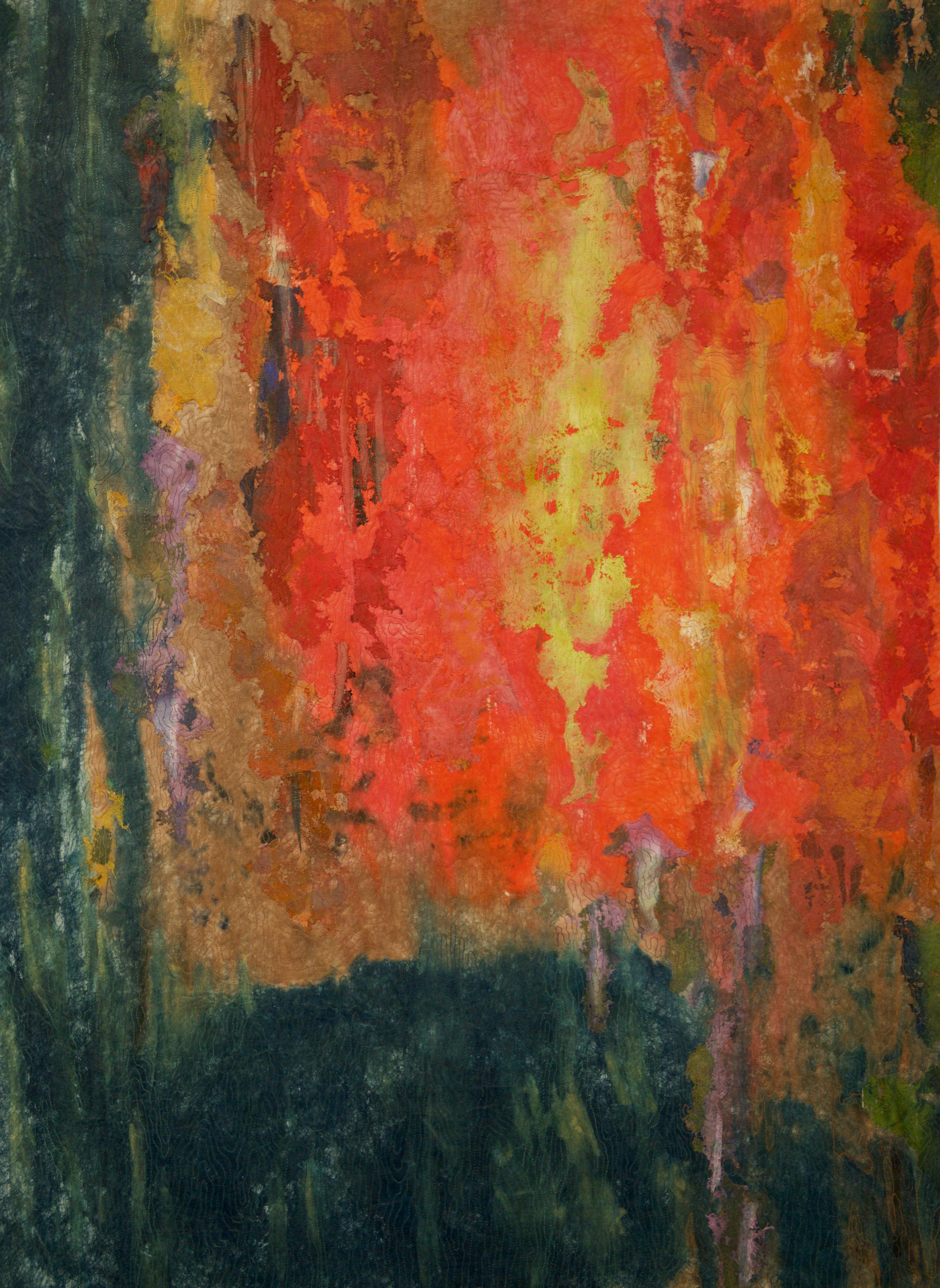 Artist: Barbara Lee Smith Photographer: Igor Beschieru